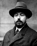 The psychical researcher Rene Warcollier.